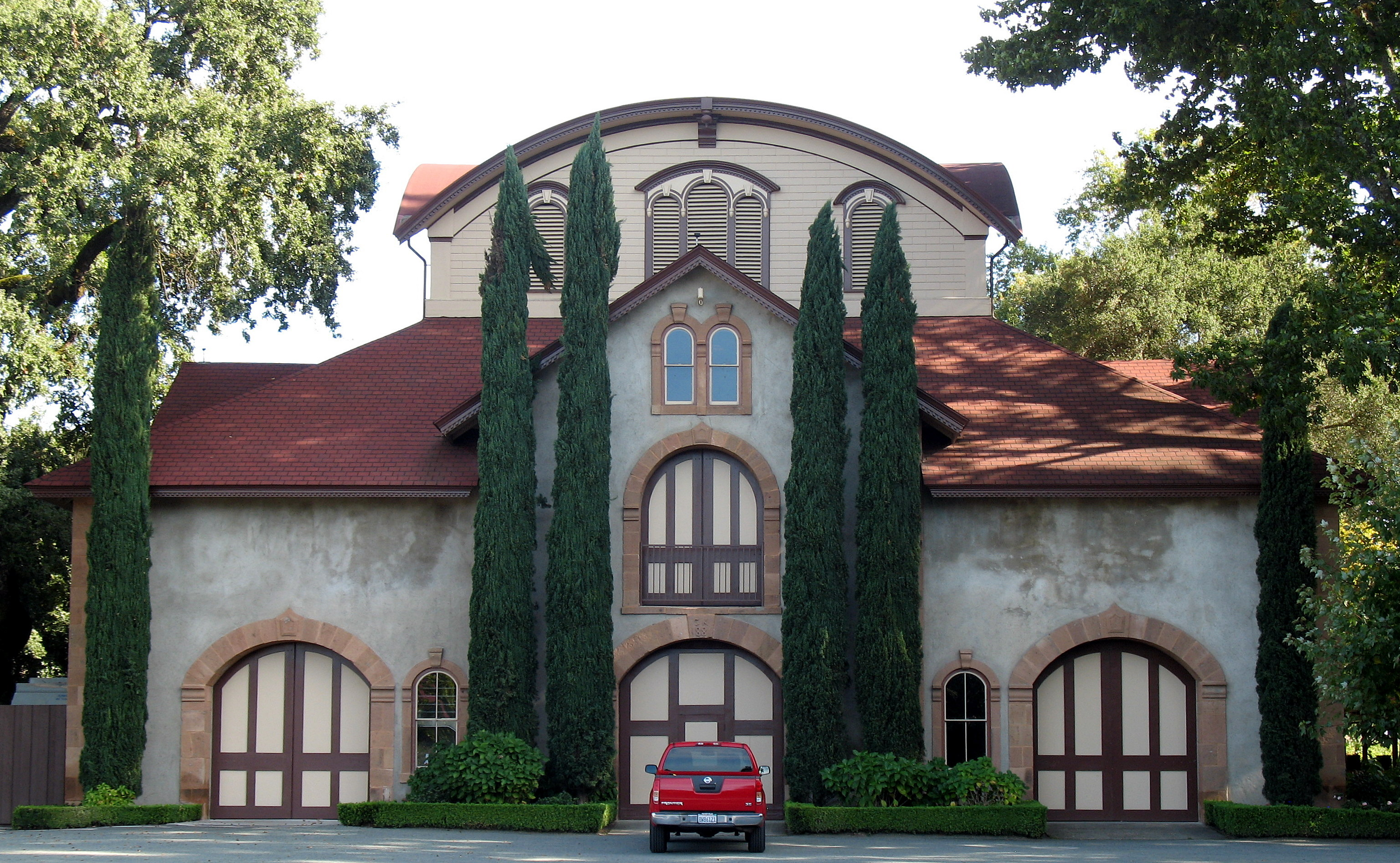 National Register of Historic Places listings in Napa County, California. Charles Krug Winery, 2800 St. Helena Hwy., St. Helena, California